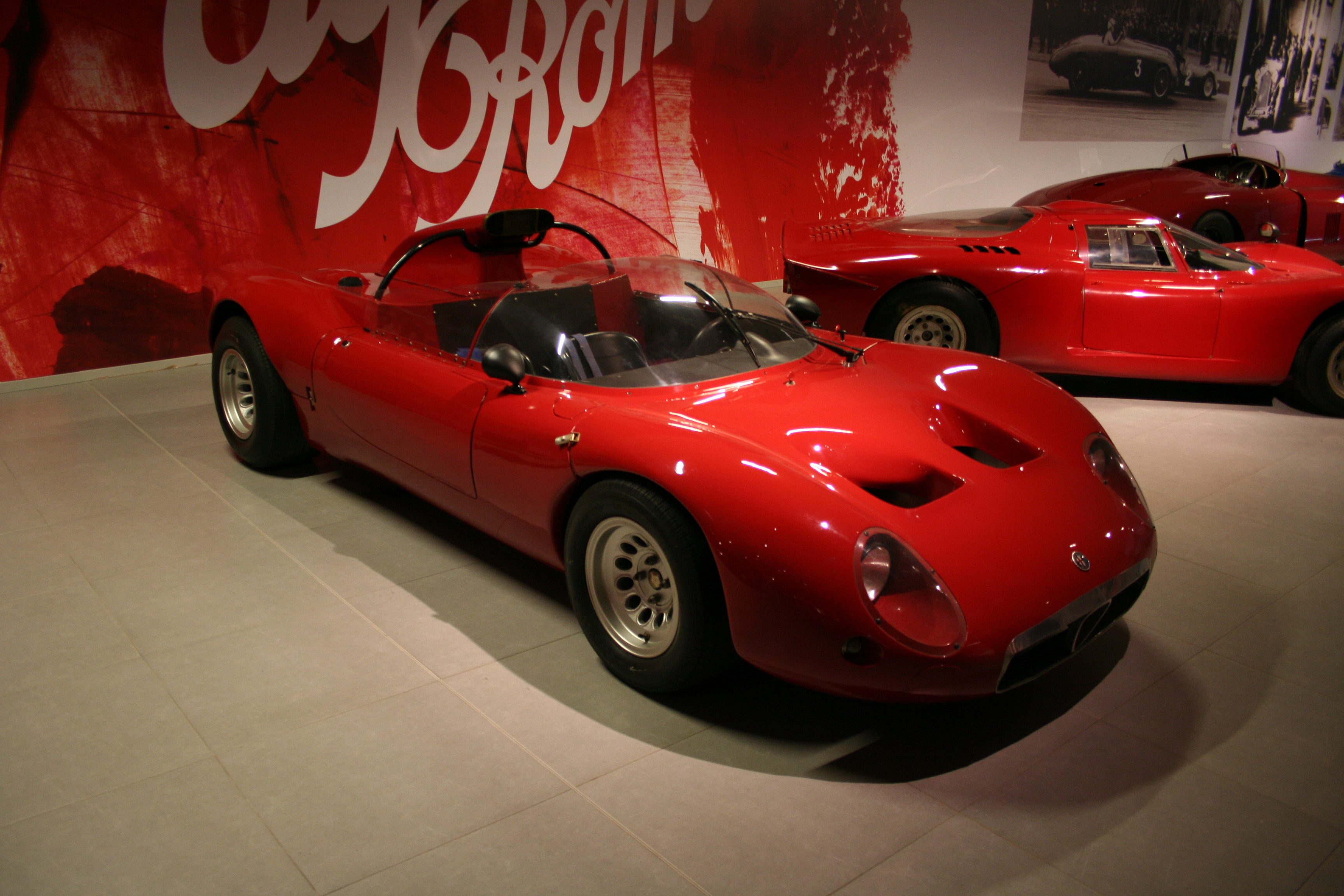 Alfa Romeo Tipo 33 'Periscopica'_1967,Picture taken at Louwman Museum, The Hague, The Netherlands.